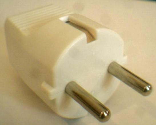 Schuko power plug, standard CEE 7/4, bought in Spain (Valencia). Incompatible with French male-earth sockets.